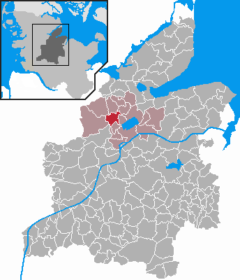 Locator maps of municipalities in Schleswig-Holstein - District Rendsburg-Eckernförde